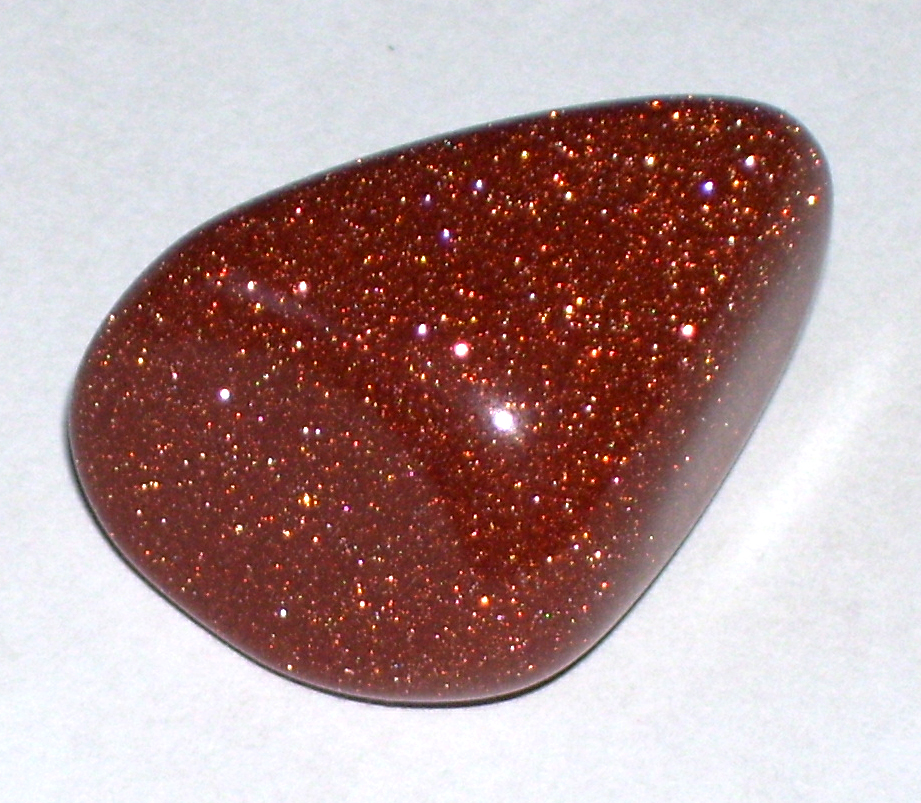 Goldstone, Goldfluss, Aventuringlas